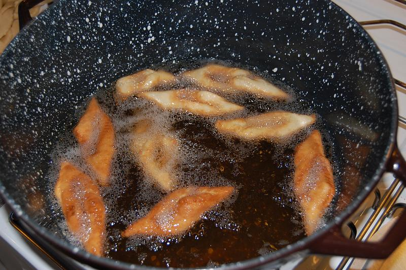 Klejner (Danish) is a small cookie boiled in oil or fat.